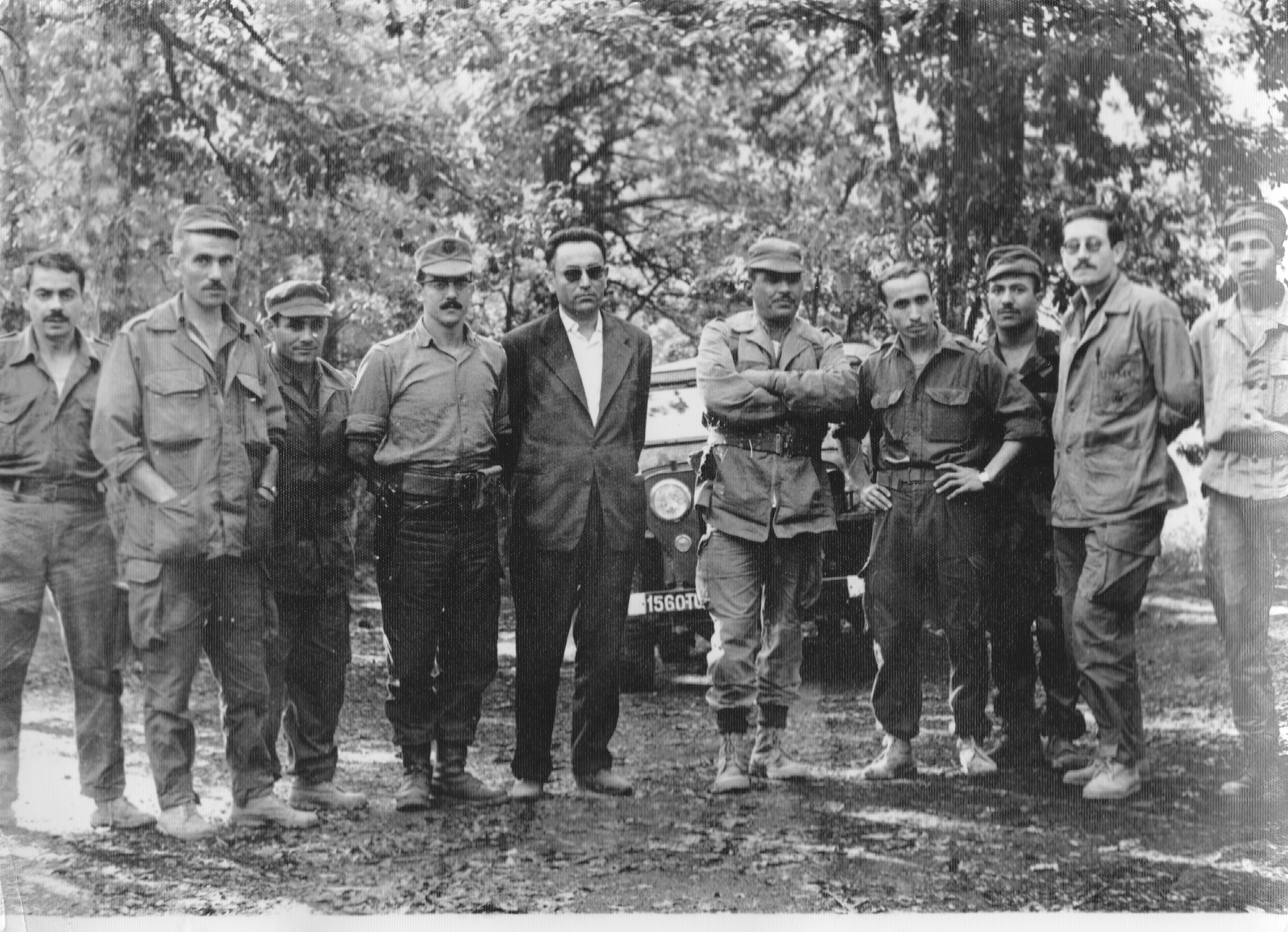 Photo taken during the war of independance of Algeria in 1961. Including several Algerian personalities: a future president of Algeria (Bendjedid), a future prime minister (Abdelghani) and the head of the Algerian government at the time (Benkhedda).